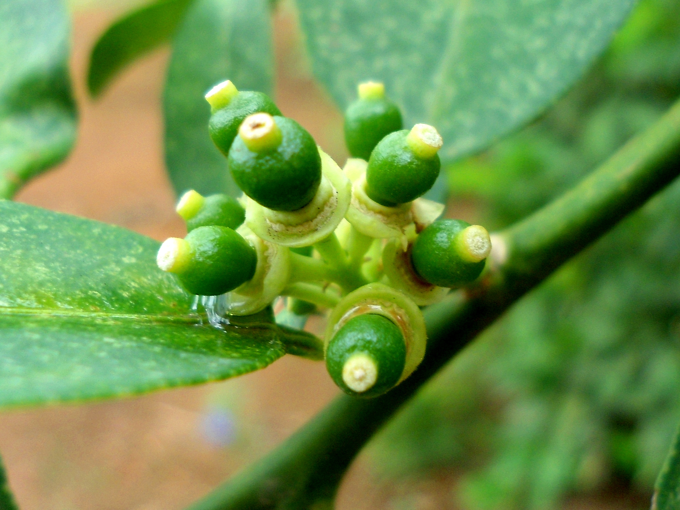 Citrus latifolia lemon buds at Madhurawada in Visakhapatnam